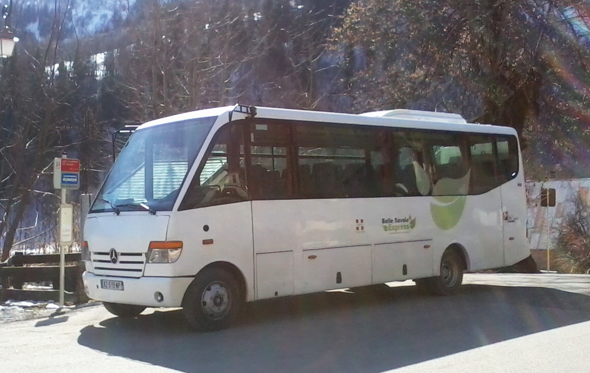 Photo of the ski-bus in St.Colomban des Villards.